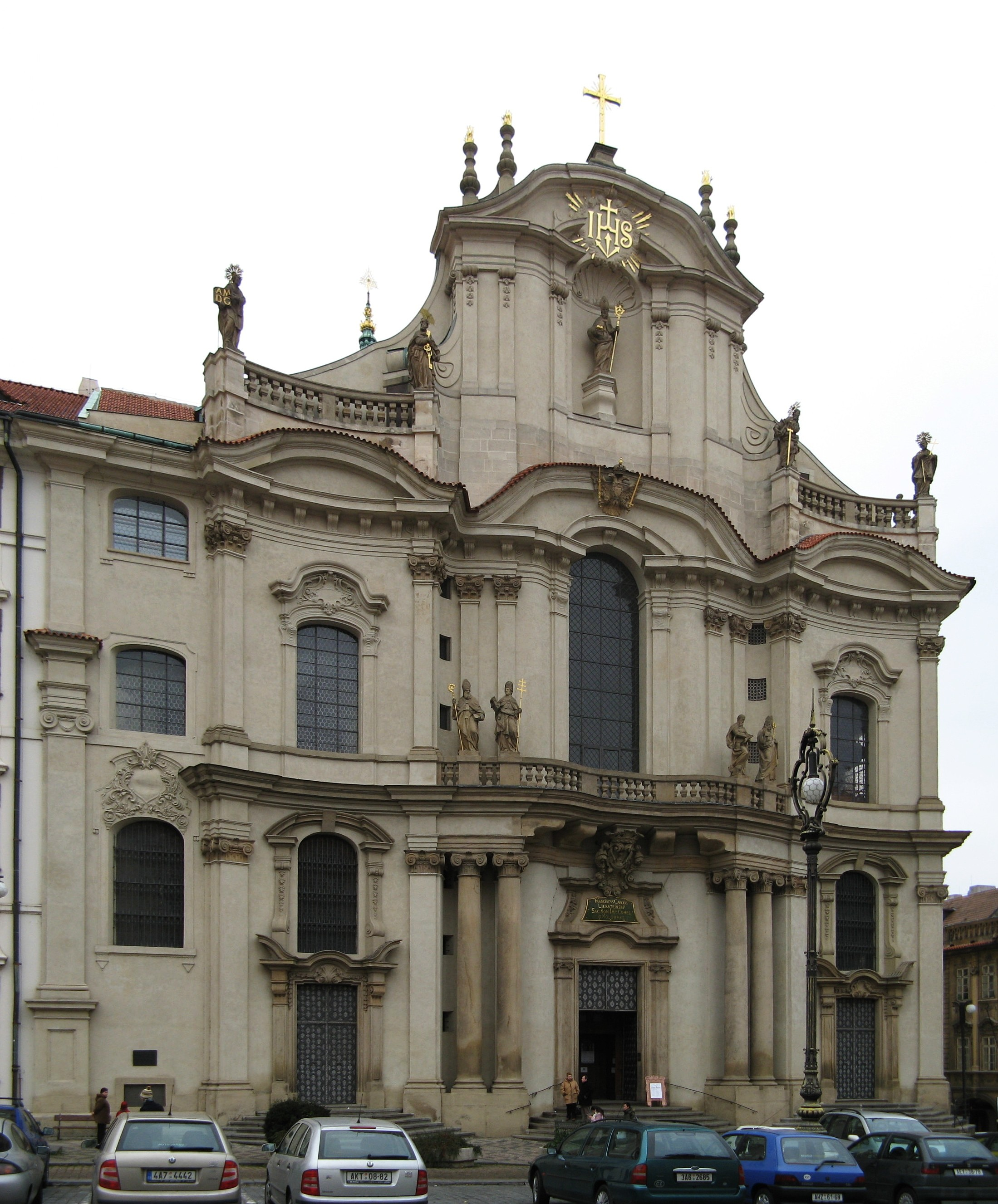 Church of St Nicholas of Mala Strana in Prague